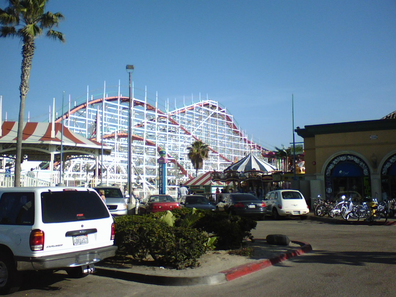 View of the front entrance to Belmon Park in Mission Beach, San Diego, California, with the Giant Dipper roller coaster in the background.